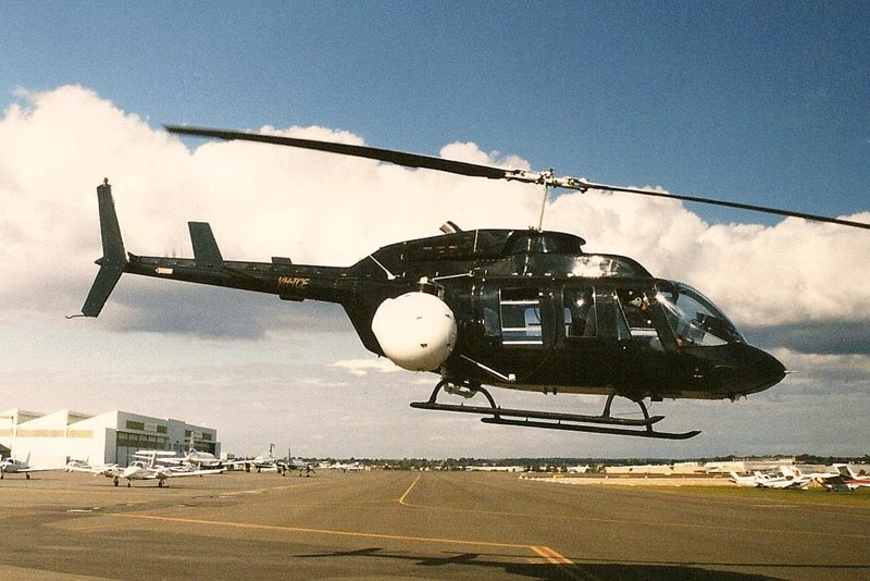 This Bell 206L LongRanger is fitted with a Wescam gyro-stabilised cine camera. Image scanned from a 6"x4" photograph of VH-TCE taken by YSSYguy at Bankstown Airport in Sydney, Australia circa August 1998.